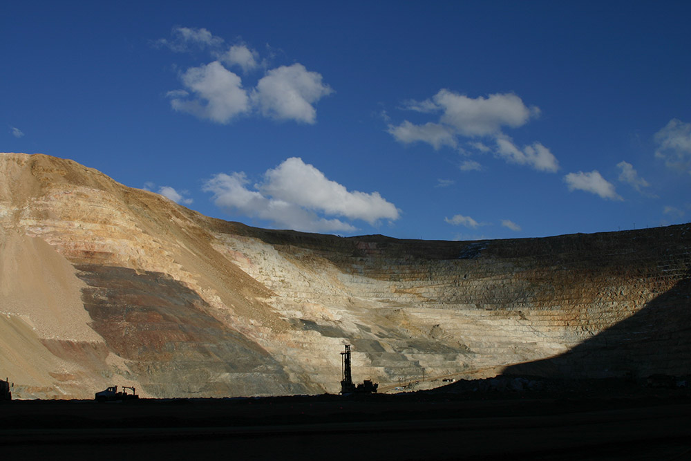 Round Mountain pit in Nevada, 2013.